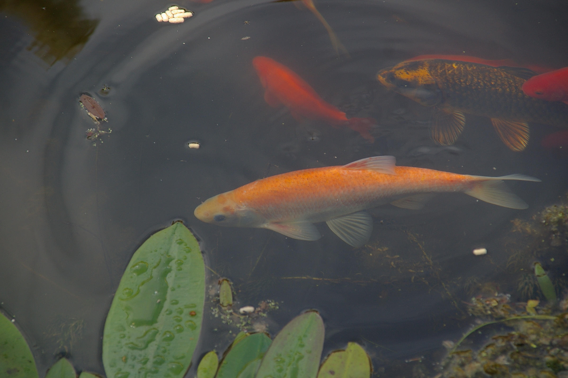 Several fish swimming in the big pond. Jumborfe (a golden orfe, leuciscus idus) is centre-frame, and Splodge the koi carp top right.